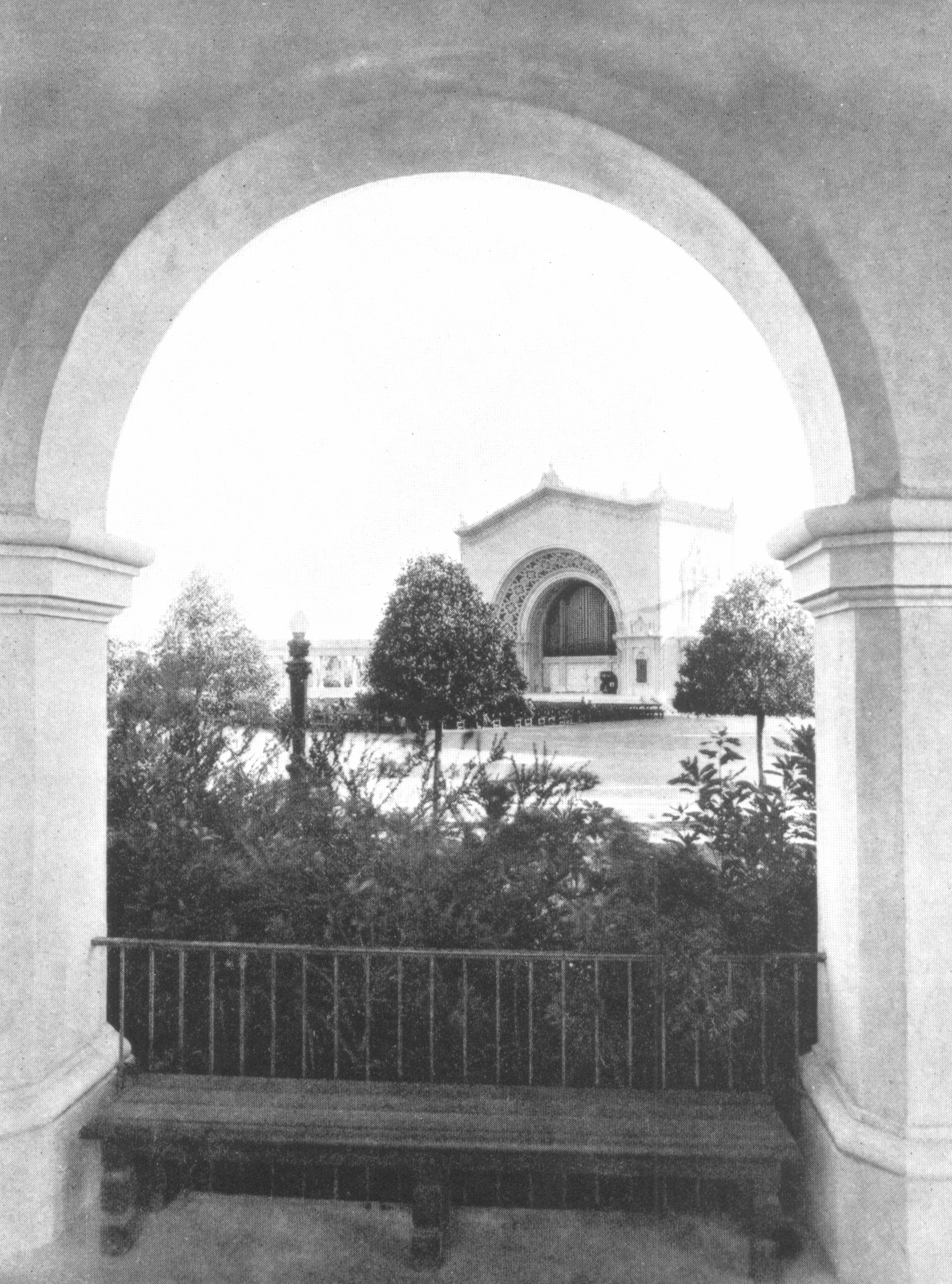 The Organ pavilion from the opposite arcade. At the bottom of the main cross axis of the Exposition and fronting on the Plaza the Los Estados stands the permanent structure of the outdoor organ pavilion given to the Exposition and the city of San Diego by John D. and Adolph B. Spreckels. This building, of which Harrison Albright was the architect, consists of a great proscenium with a somewhat flat gable with finals at the top and corners and the whole ornamented with delicate Plateresque detail. Curving around at the sides are colonnaded walks in form of a peristyle through which is a beautiful view of the distant city and sea. The organ, permanently presided over by Humphrey J. Stewart, Mus. Doc., has four manuals and sixty-two speaking stops.